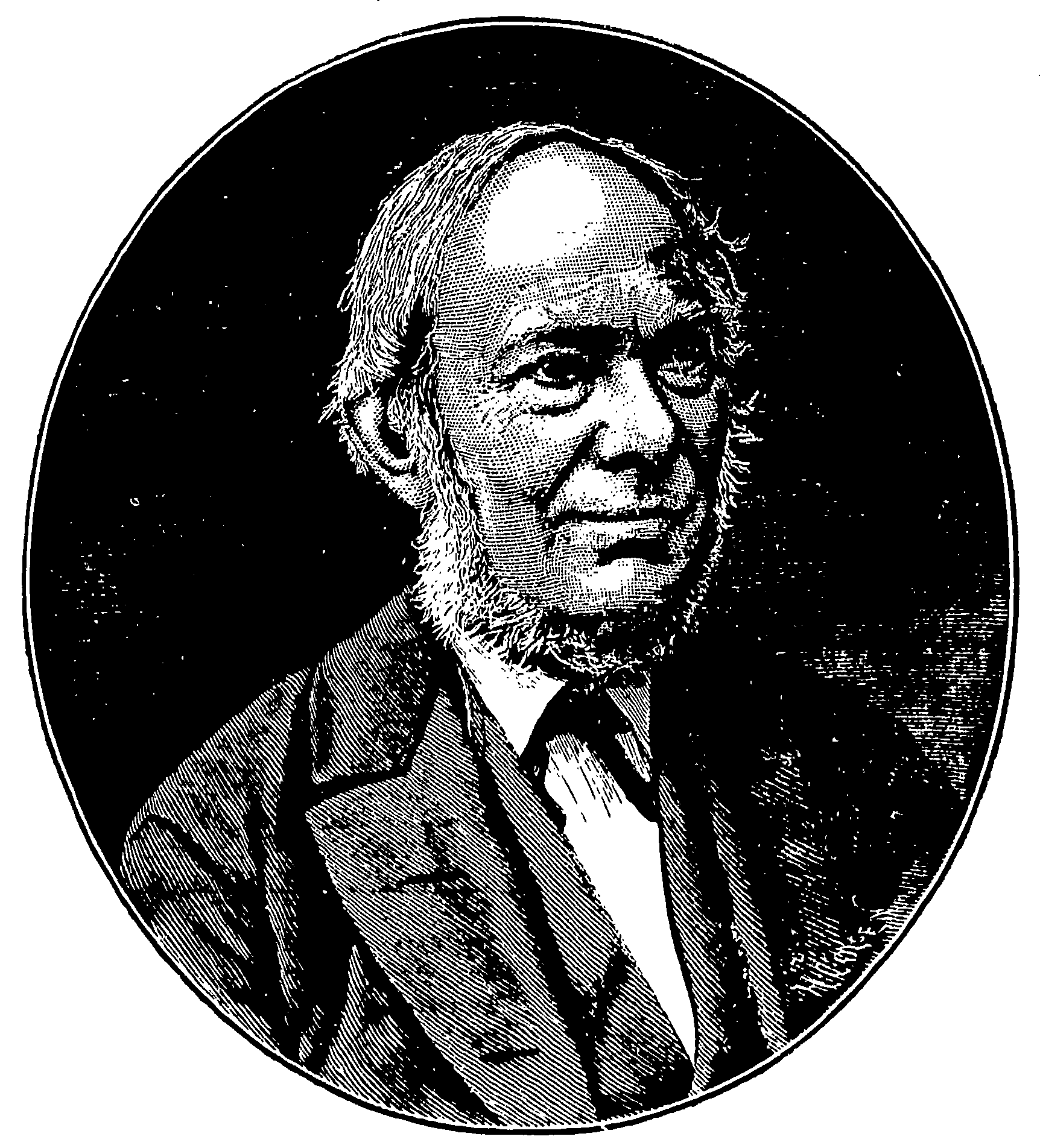 The Norwegian philosopher Marcus Jacob Monrad.